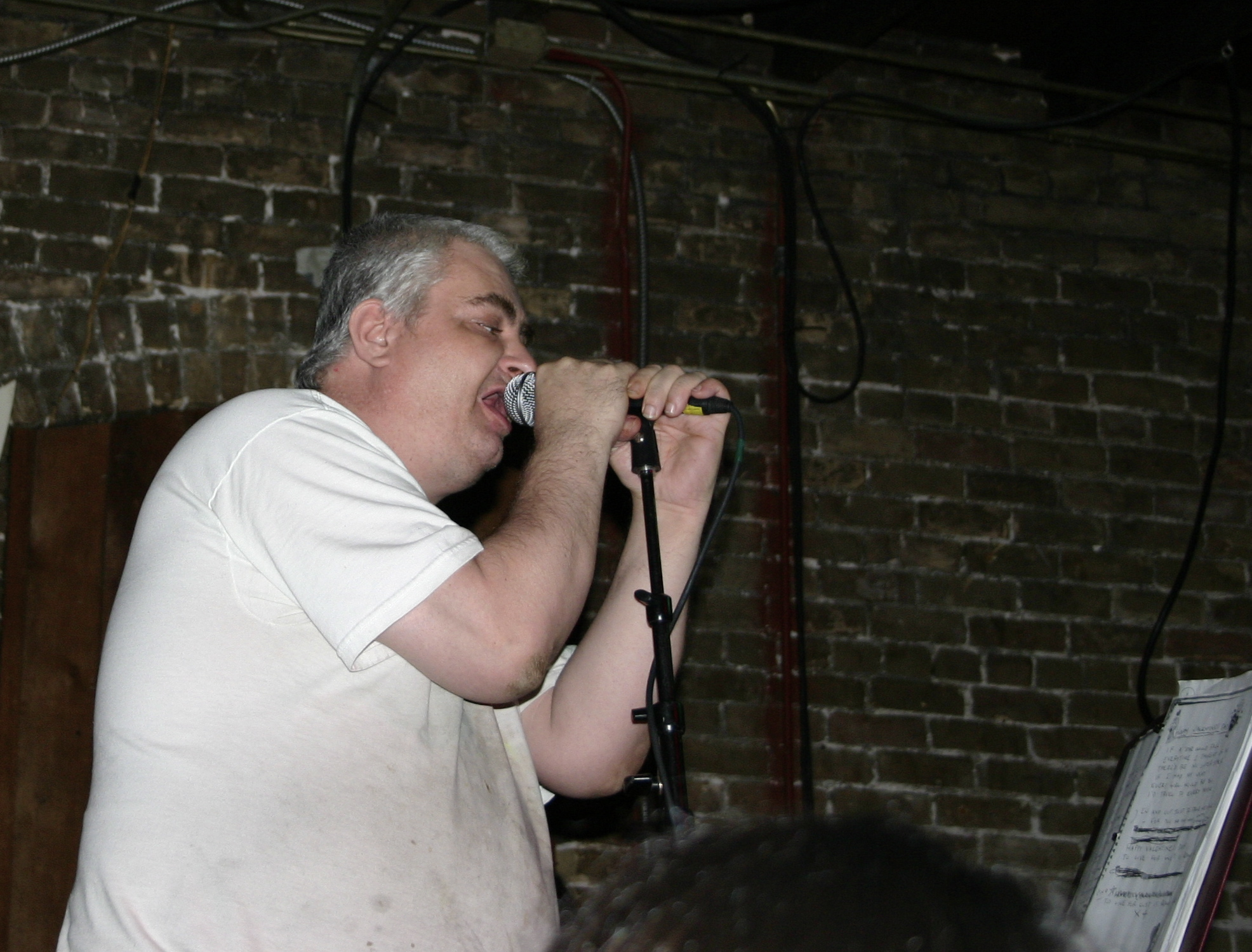 Daniel Johnston performing at Emo's